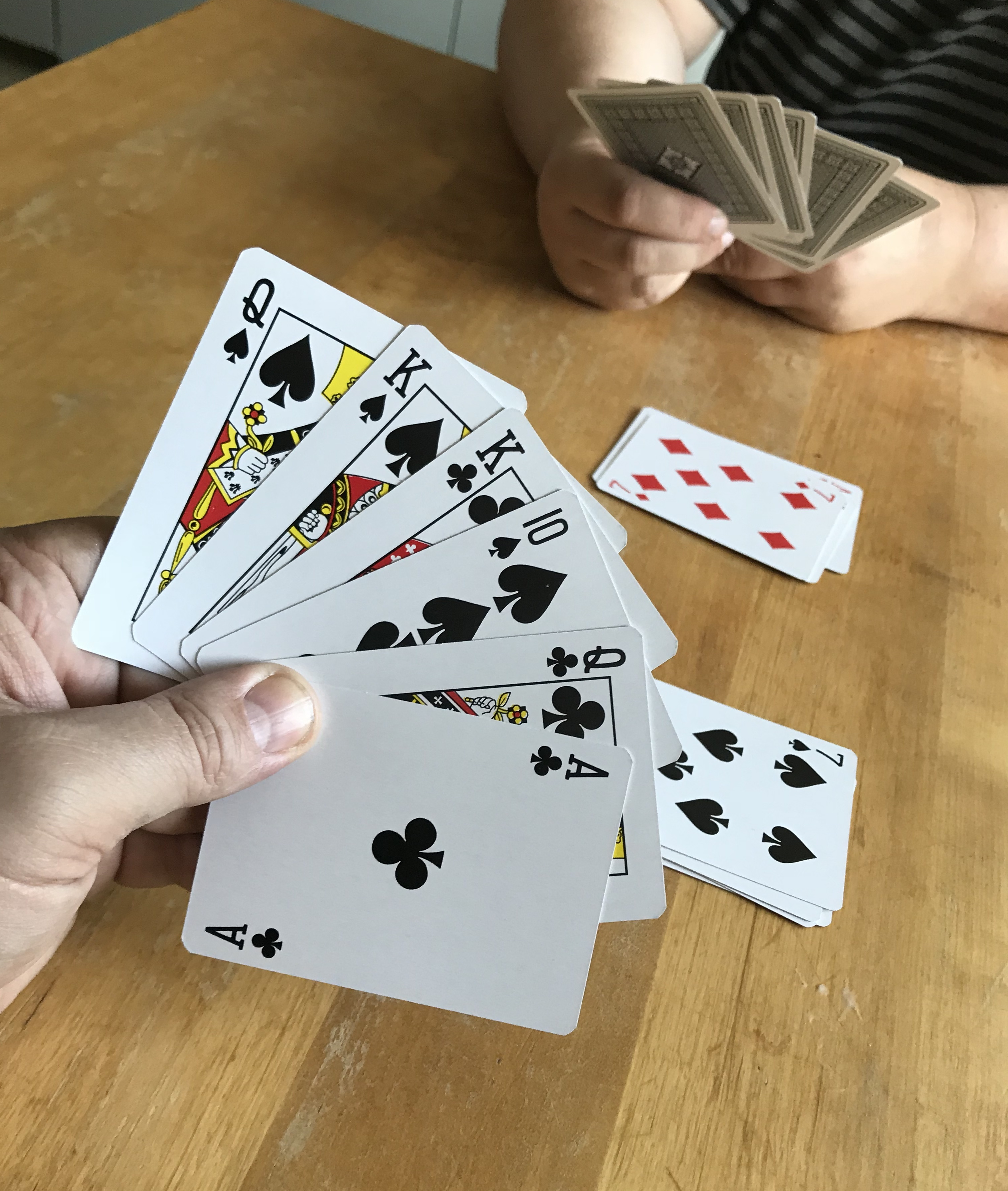 card deck from the card game Matt: playing Matt